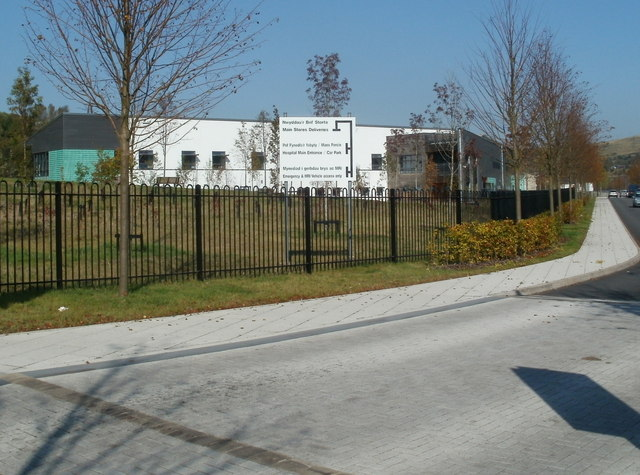 SE edge of Ysbyty Aneurin Bevan, Ebbw Vale